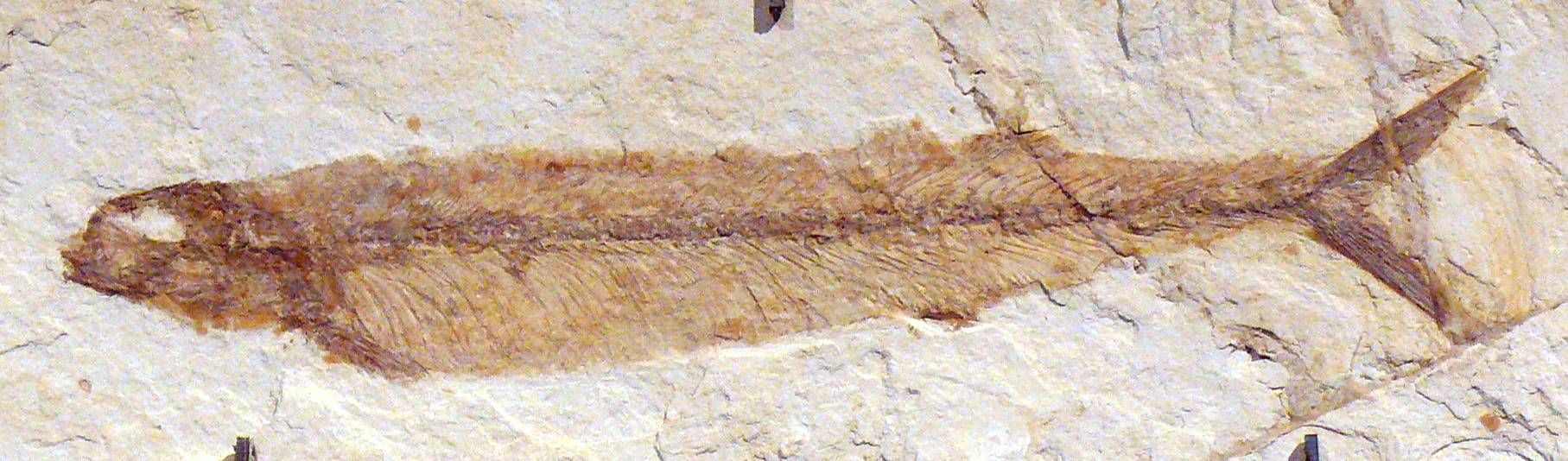 Allothrissops sp.